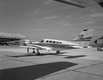 This picture may have usage restrictions